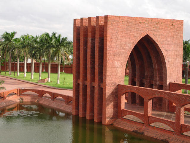 Captured by me and my friends.